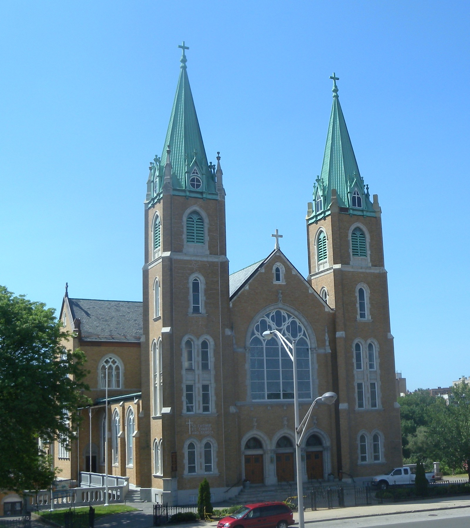 Looking west across Nepperhan Avenue at St Casimir on a sunny afternoon.